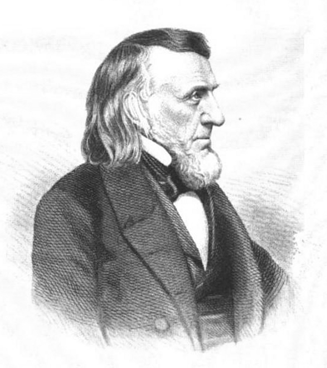 Image of American lawyer/writer/critic Richard Henry Dana, Sr. (father of novelist Richard Henry Dana, Jr.) From The Poets and Poetry of America by Rufus Wilmot Griswold, 16th edition. Published by Parry and McMillan, 1855.